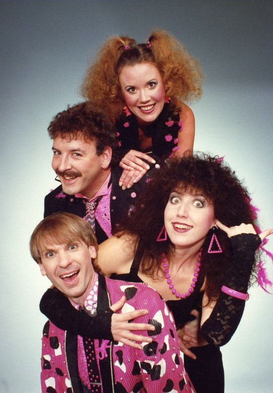 A posed shot of The Amazing Pink Things from 1990.